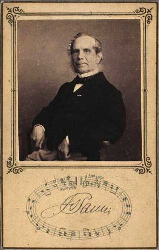 Holger Simon Paulli (1810-1891), Danish composer and conductor